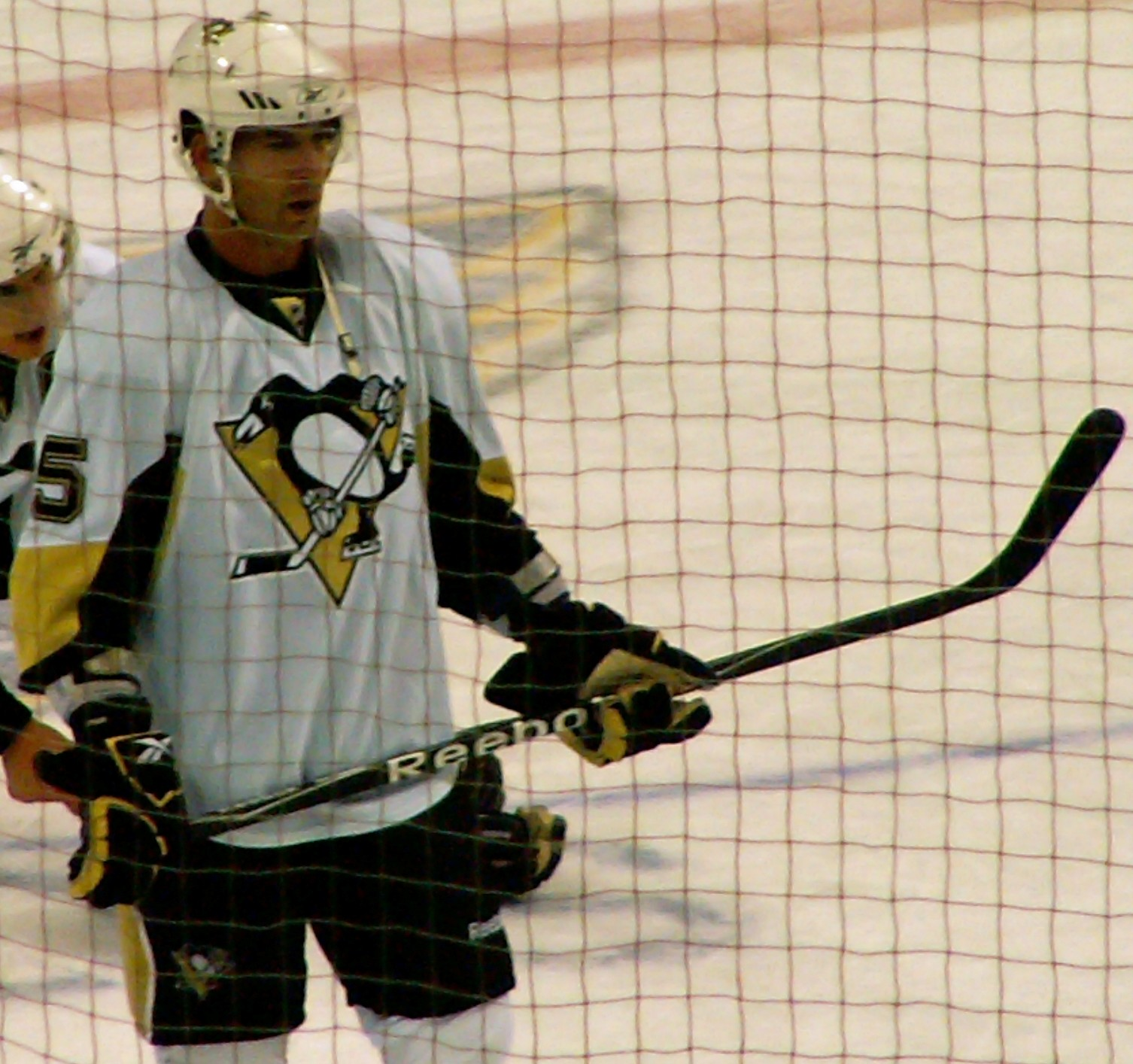 Mike Zigomanis in St. Louis on November 1, 2008.